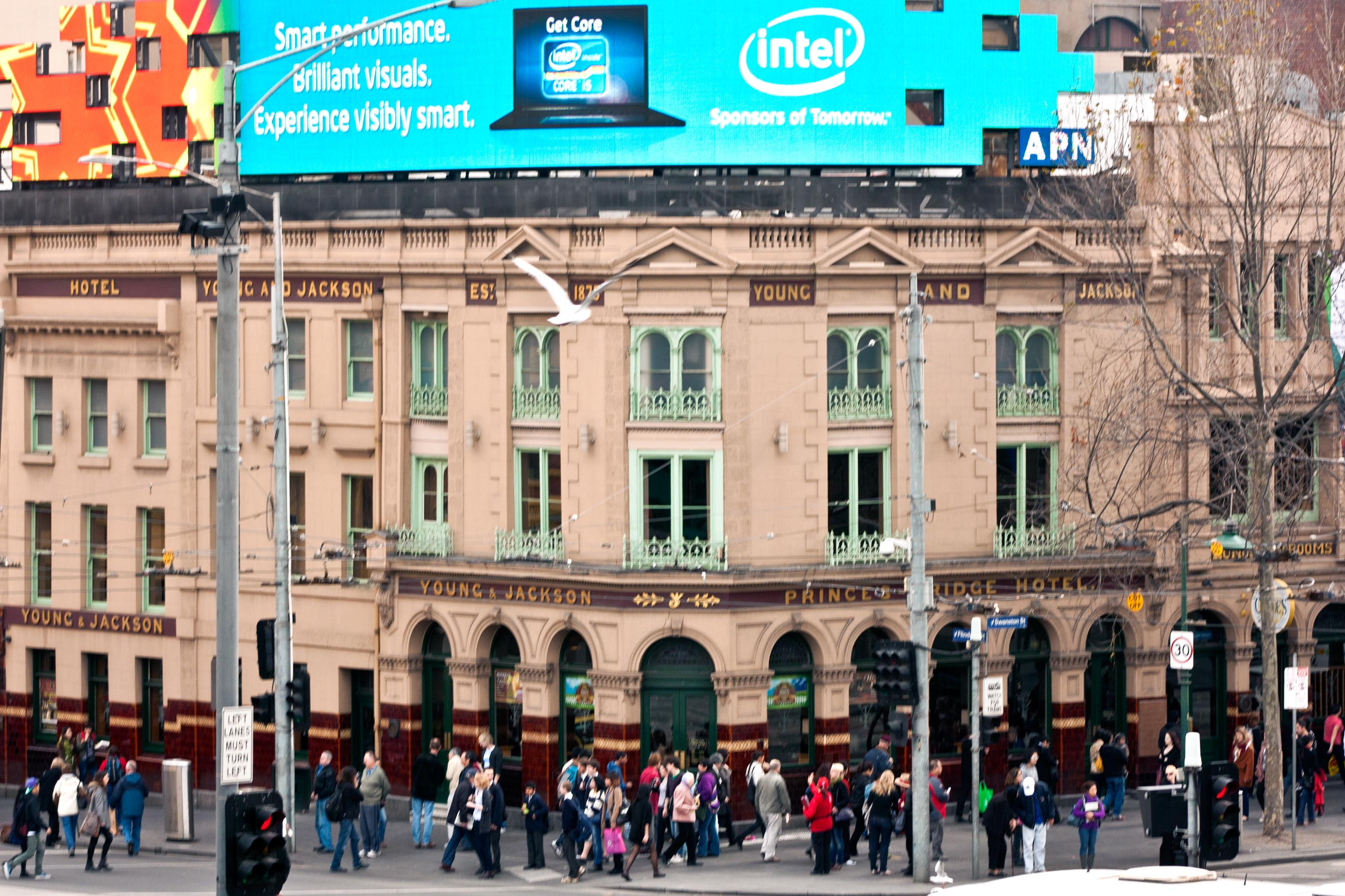 Young & Jacksons Hotel, Melbourne, Victoria, Australia